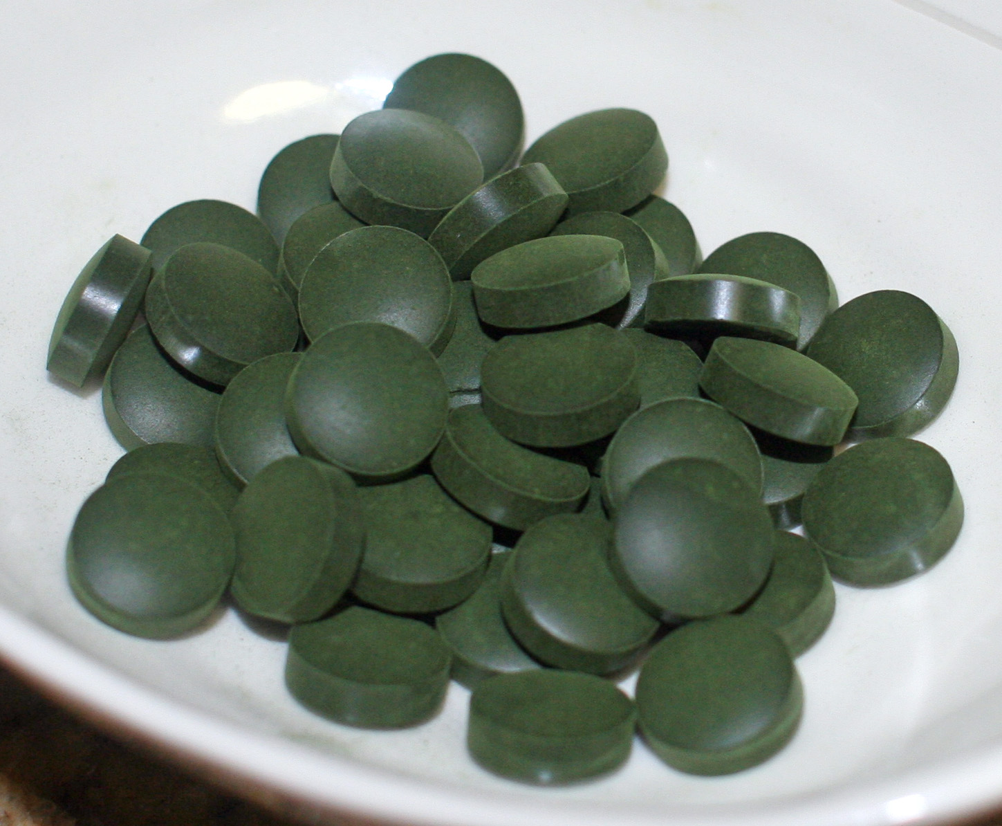 Spirulina (dietary supplement) tablets are made from cyanobacteria genus Arthrospira.